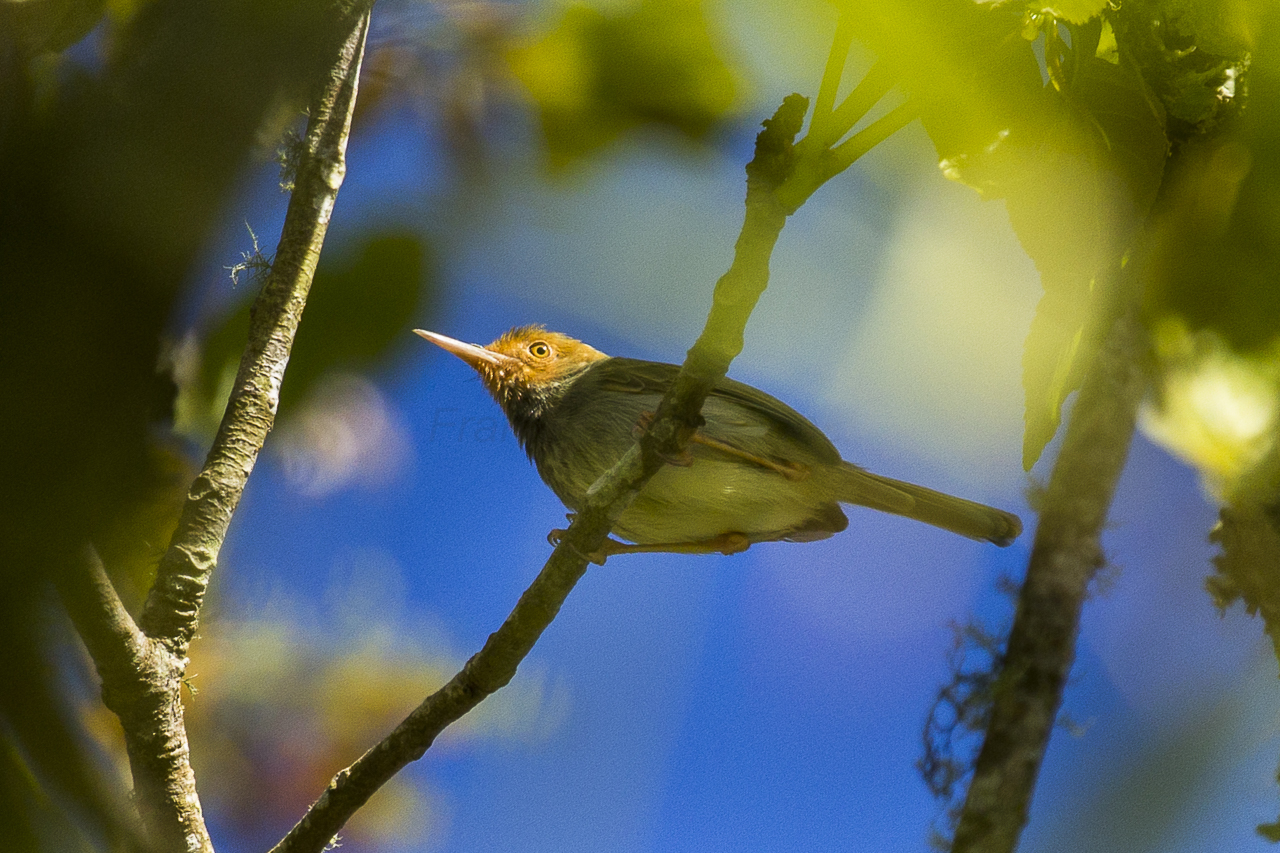 Olive-backed Tailorbird - Bot.Gardens - Bedugul - Bali_S4E3209